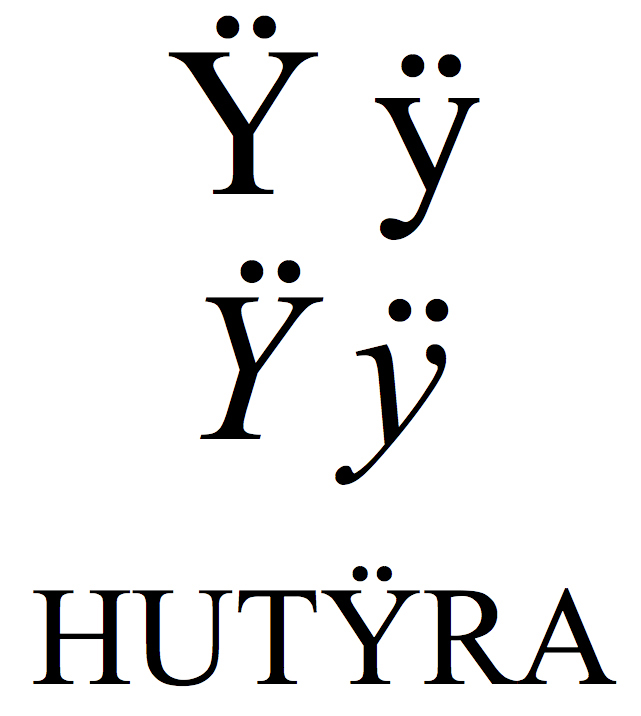 latin small and capital letter y with diaeresis, and small capital ‘Hutÿra’